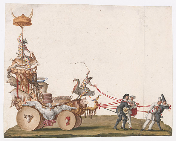 Lodovico Ottavio Burnacini: Carnival wagon with figures of the Commedia dell'arte: Two Arlecchinos, Scaramuccia, Brighella, Pulcinella and Capitano. End of the 17th c. 33,5 cm x 43,7 cm. Vienna, Theatermuseum.